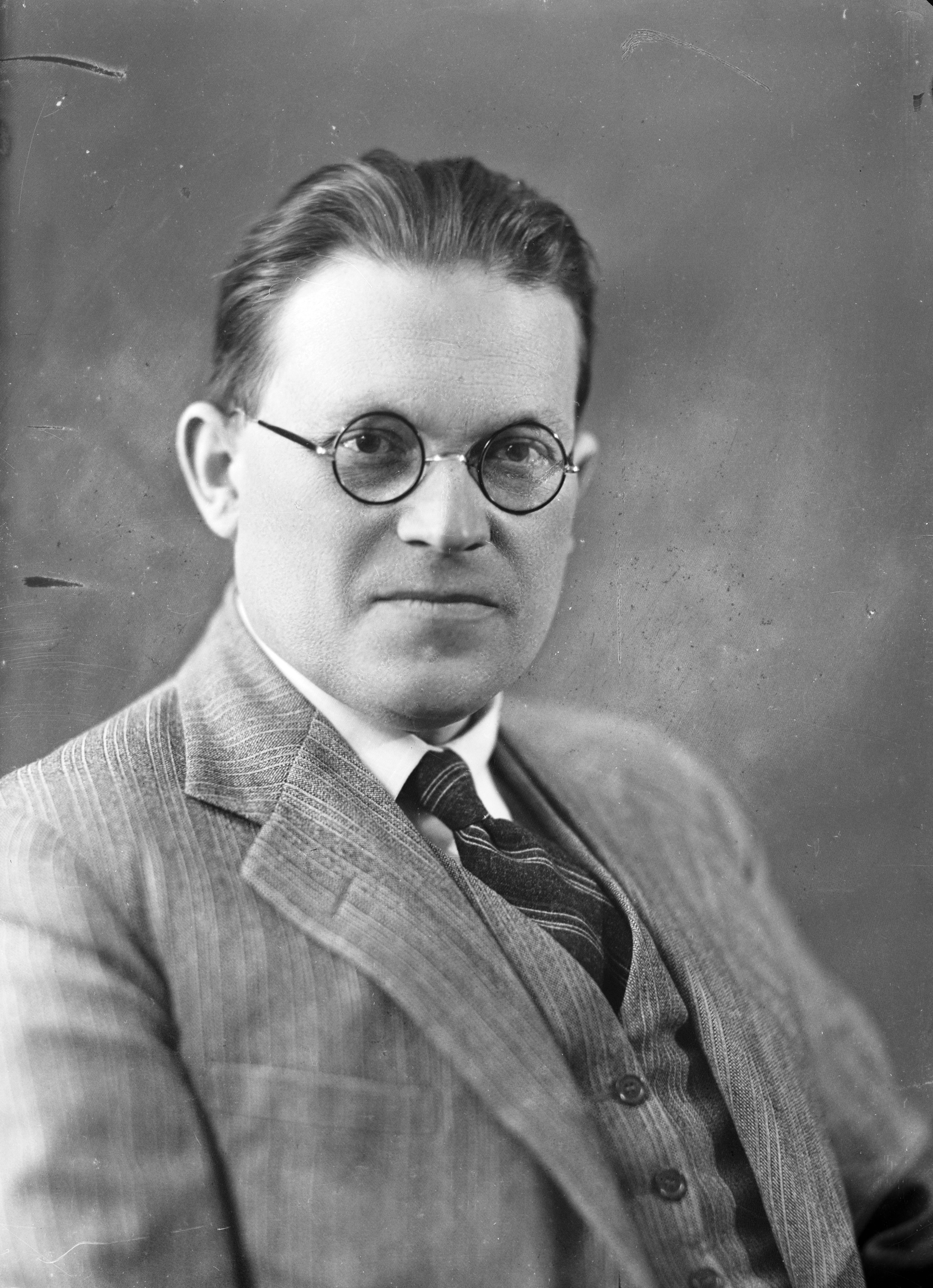 Portrait of the Norwegian physisist Johan Peter Holtsmark